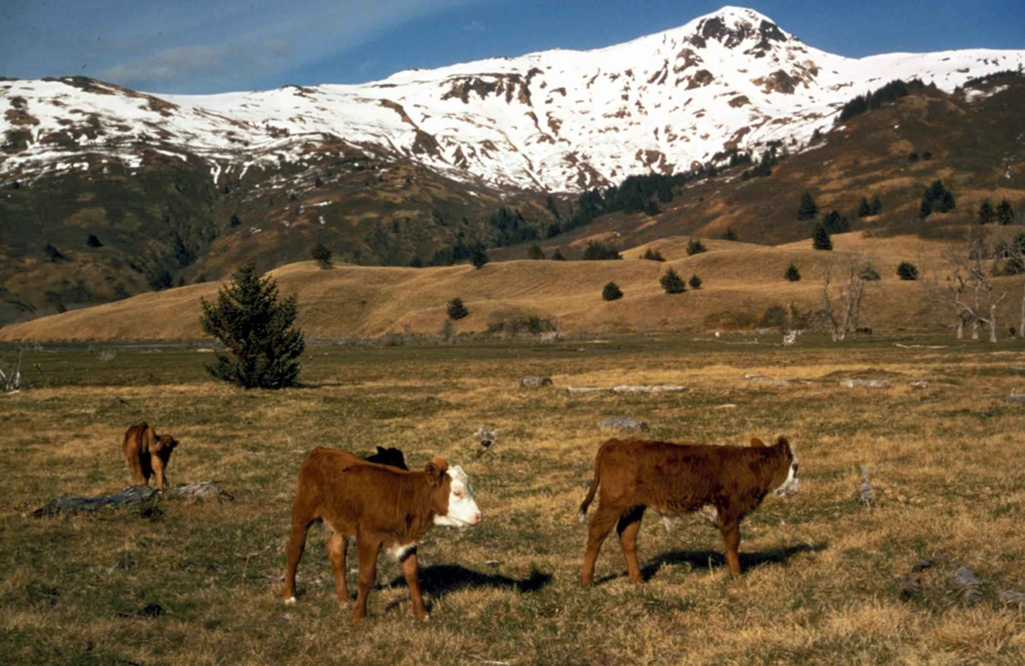 Image title: Domestic animals livestock Image from Public domain images website